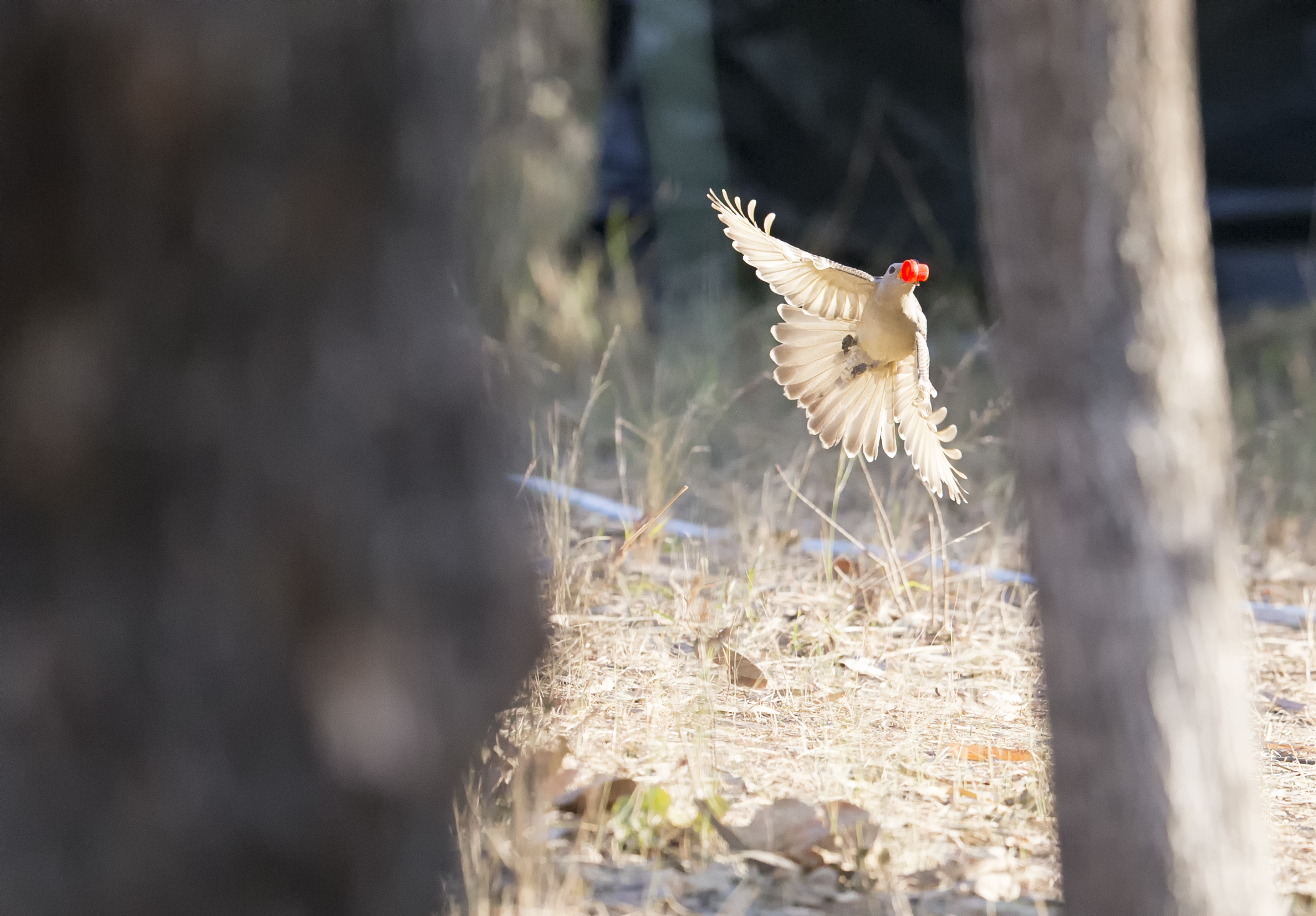 I have a love/hate relationship with the 200 f2. But sometimes its love.. Great bowerbird caught stealing a red gas cylinder cap for the bower display. Taken from a distance